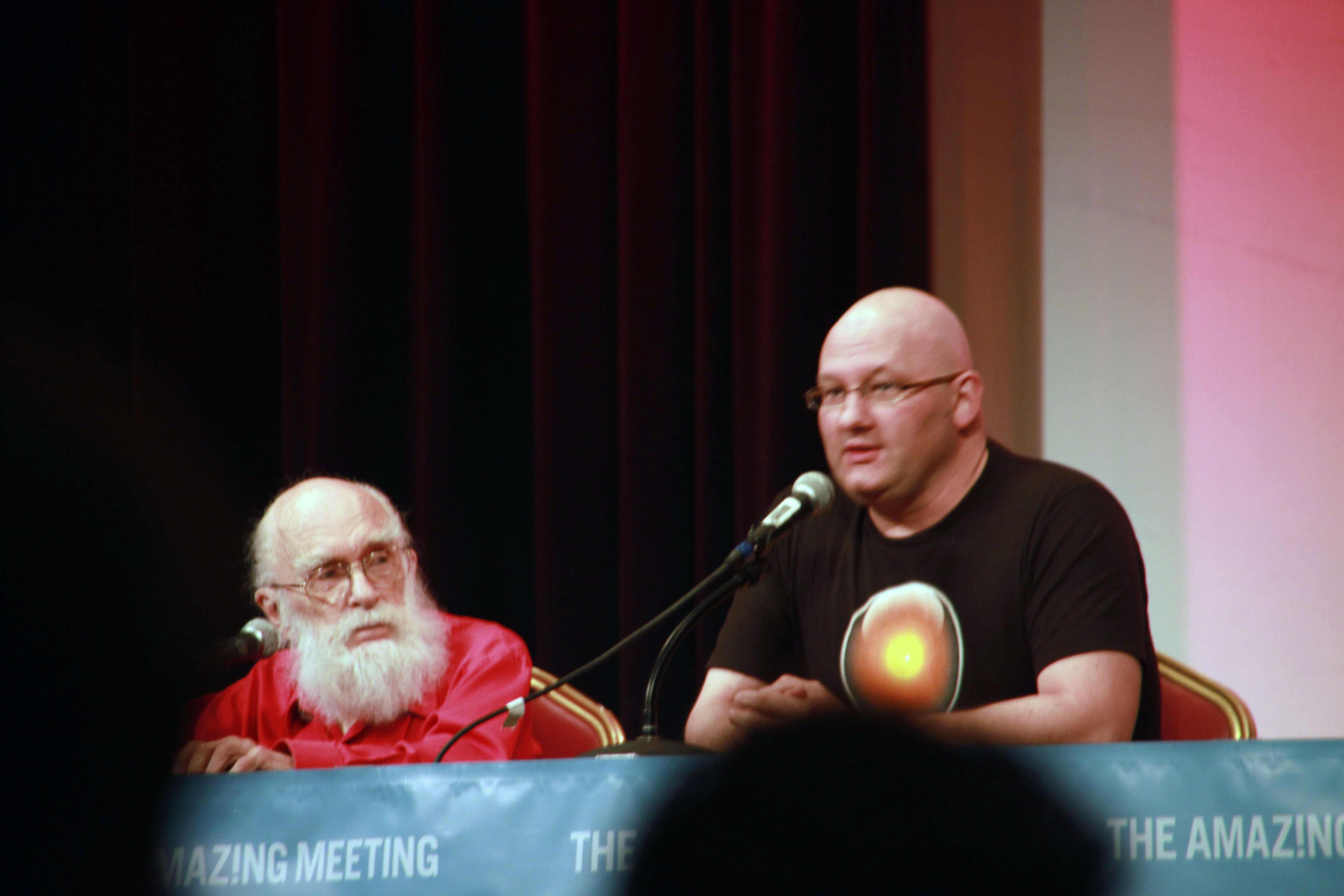 Ben Radford and James Randi at The Amazing Meeting 2012